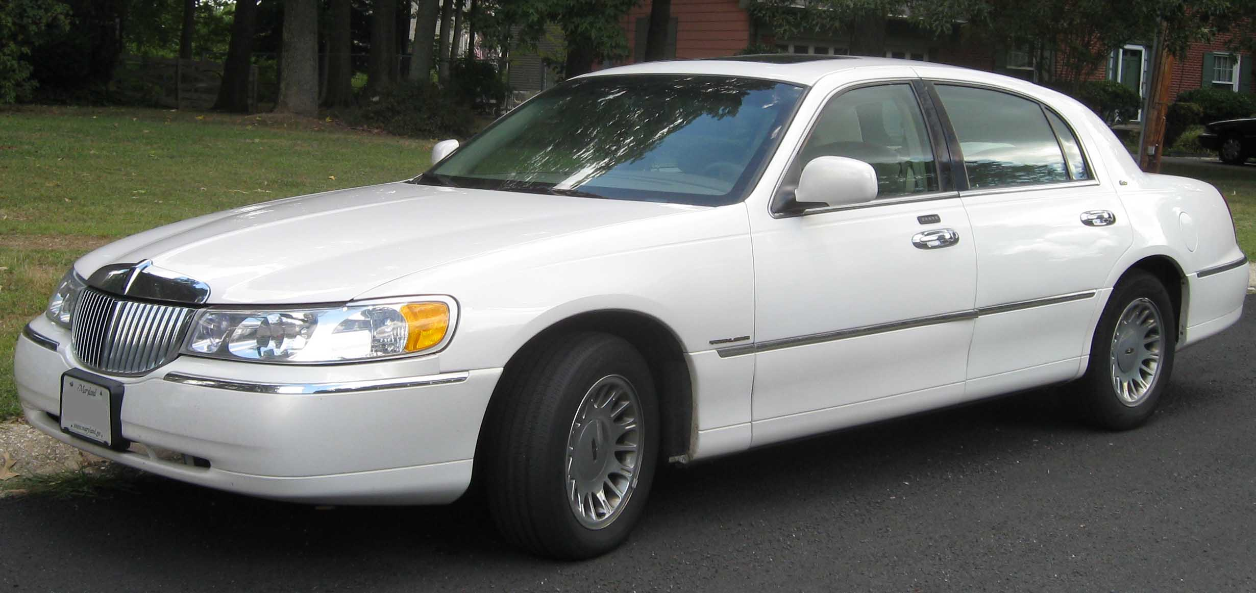 1998-2002 Lincoln Town Car photographed in Waldorf, Maryland, USA.